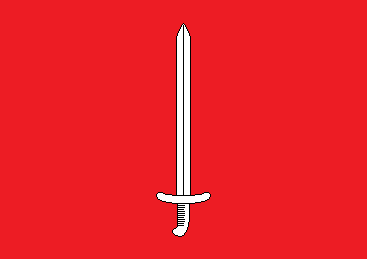 Sohawal State Flag